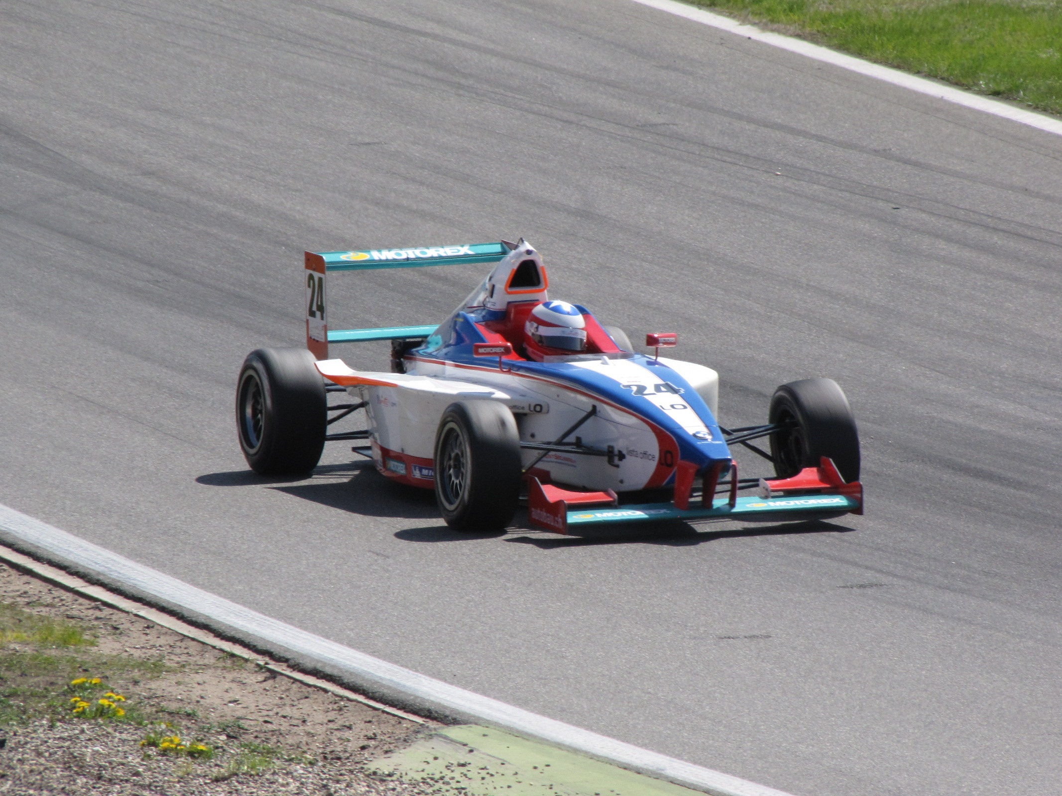 Michael Lamotte at LO Formel Lista Junior race in Hockenheim 2010